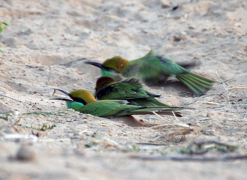 Green Bee-eaters Merops orientalis at Sindhrot in Vadodara District of Gujarat, India.